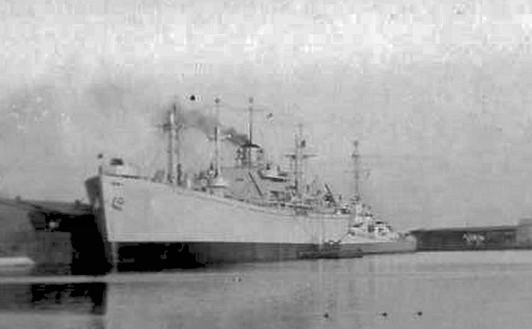 USS Luna (AKS-7) moored starboard side to an unidentified ship, date and location unknown. US Navy photo